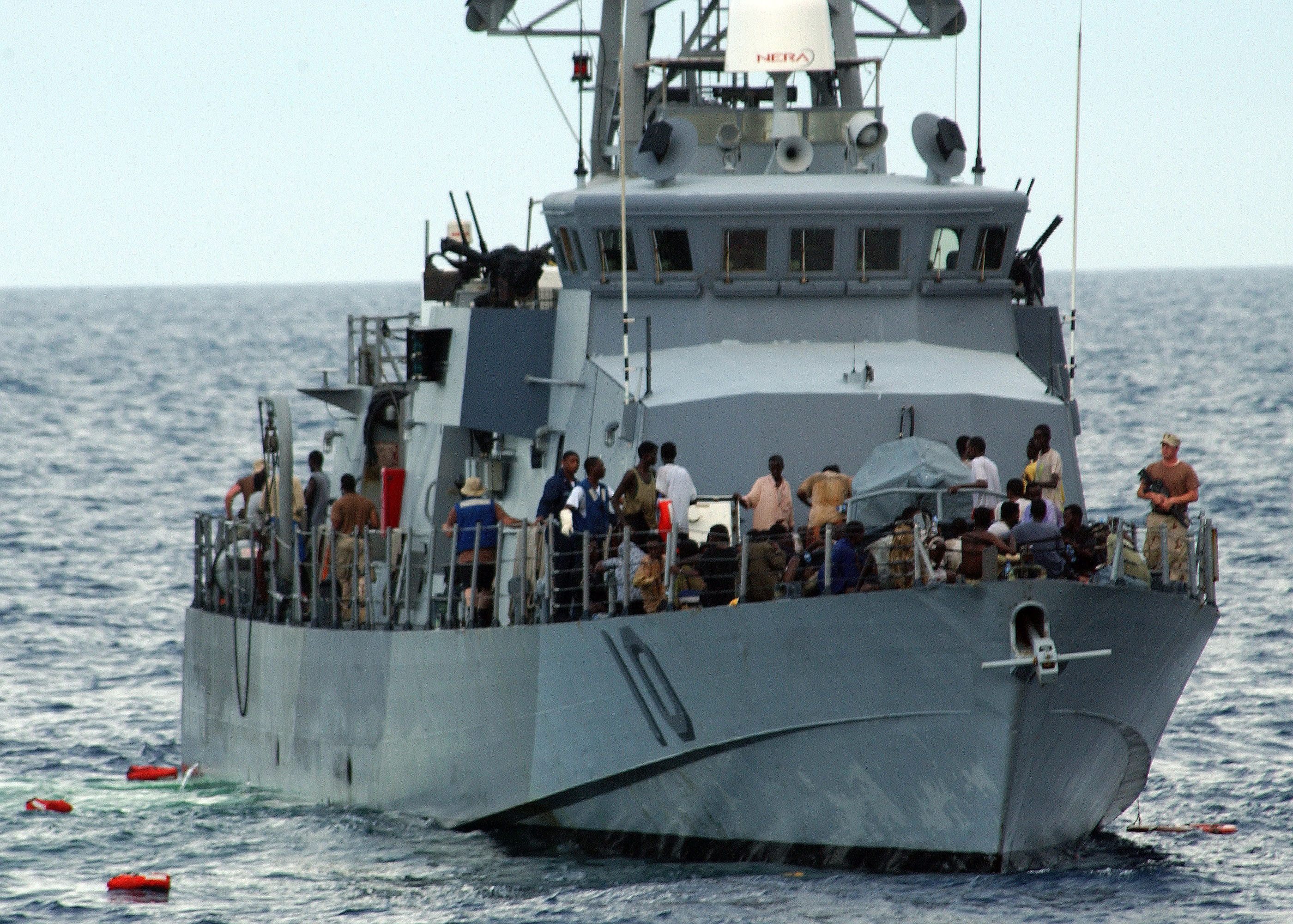 The crew of the coastal patrol ship USS Firebolt (PC 10) tends to some of the 89 survivors rescued from the Gulf of Aden after the small vessel they were traveling in capsized 25 miles off the coast of Somalia on April 29, 2005. There are possibly 41 people unaccounted for and 5 were pronounced dead at the scene. The guided missile cruiser USS Normandy (CG 60), coastal patrol ship USS Typhoon (PC 5), and German frigate FGS Karlsruhe (F 212) are assisting in the rescue effort. DoD photo by Petty Officer 1st Class Robert R. McRill, U.S. Navy. (Released)